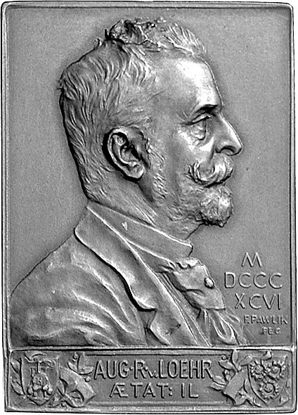 August Ritter von Loehr (1847-1917), austrian engineer